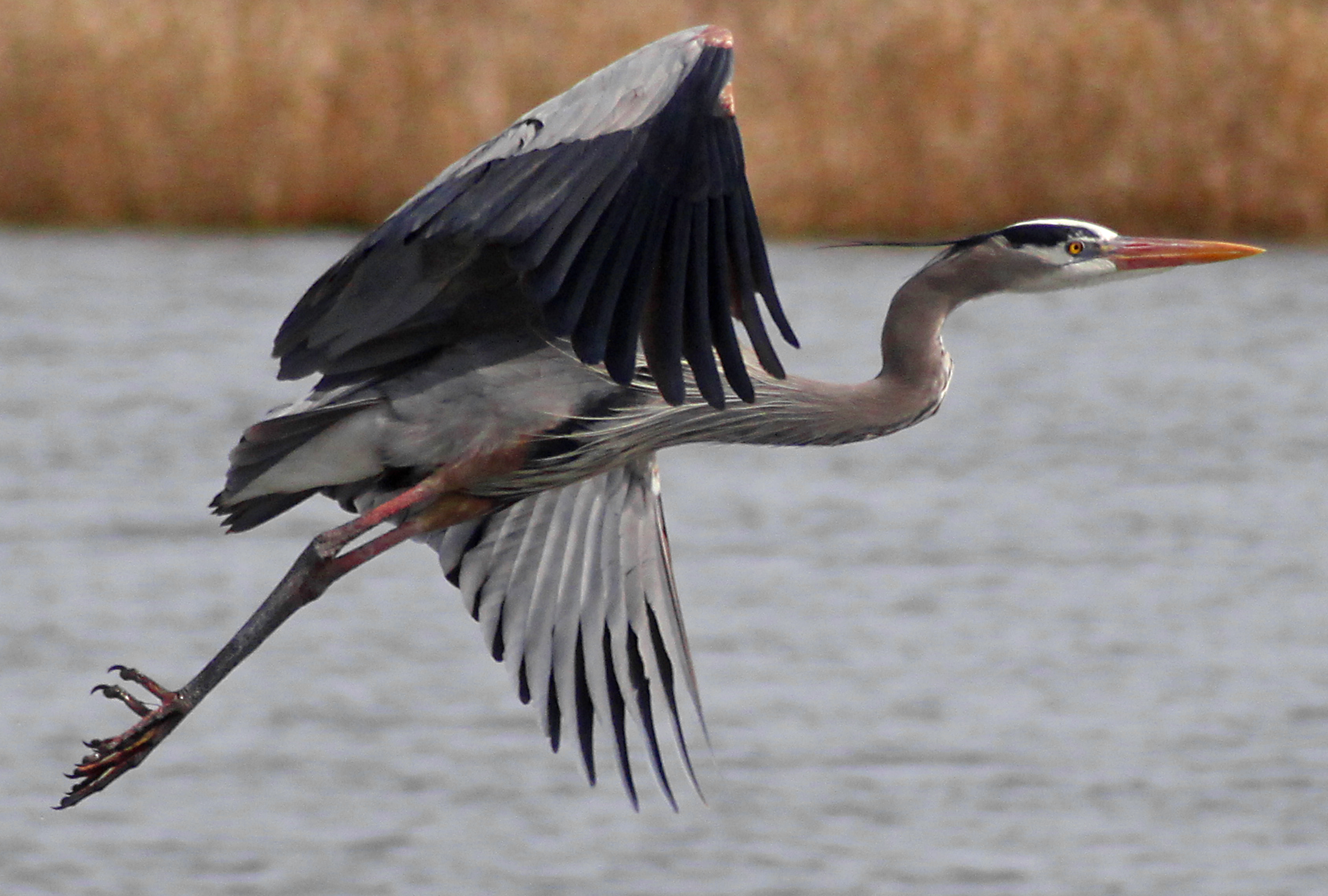 A Great Blue Heron in Montezuma National Wildlife Refuge, Finger Lakes, New York State, USA.